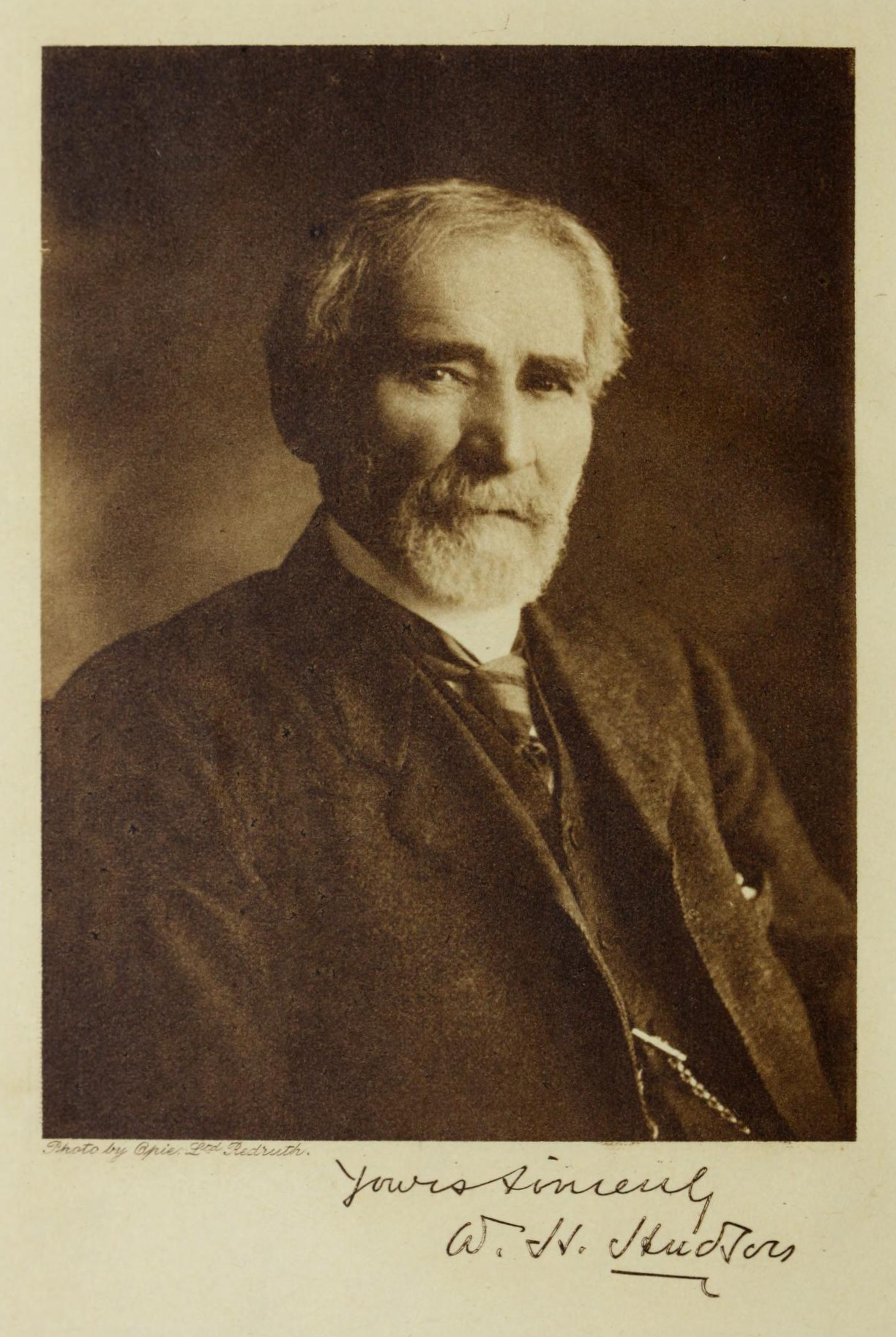 Picture of author William Henry Hudson.